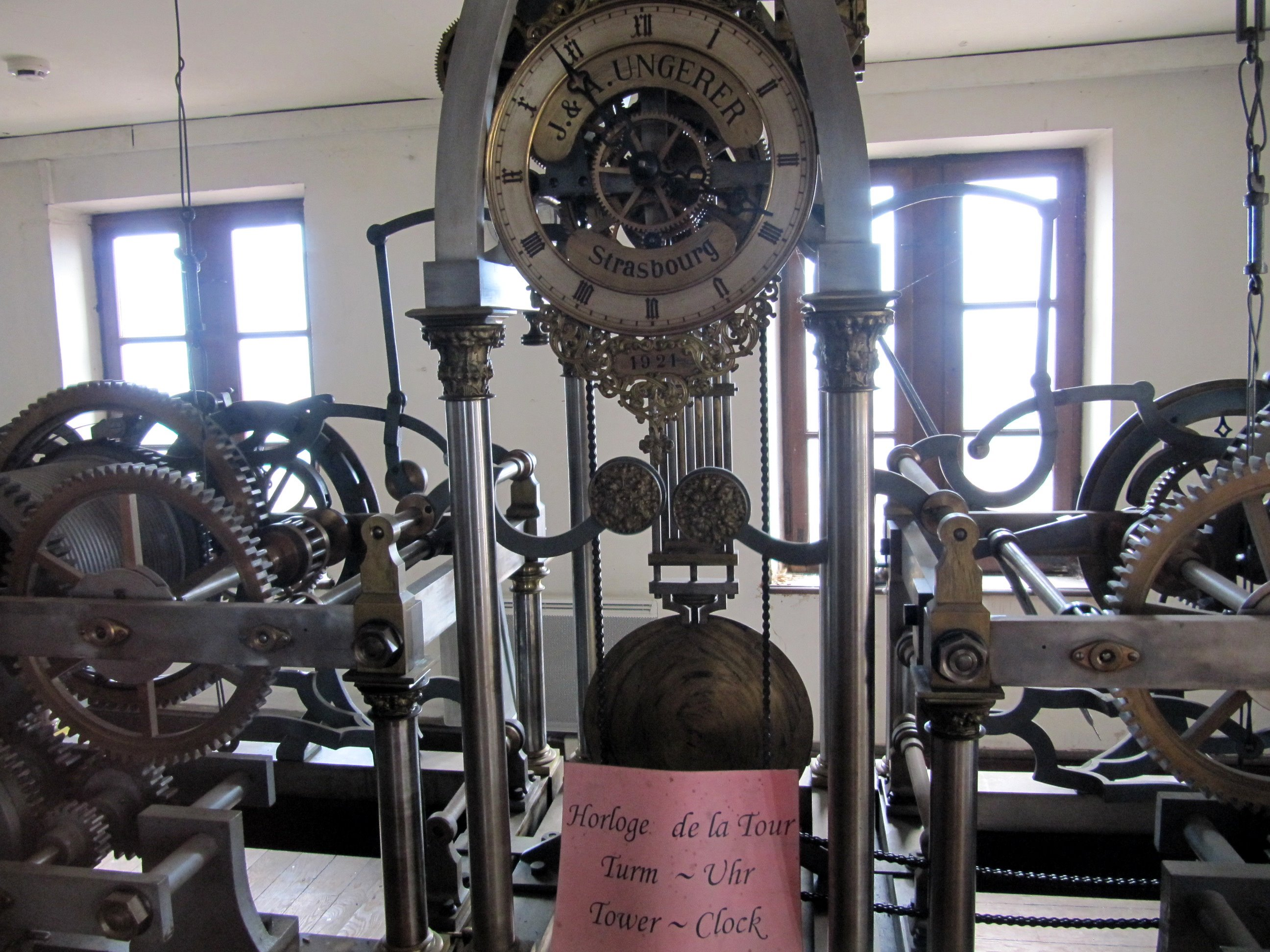 Strasbourg